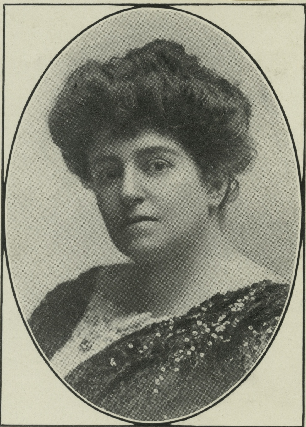 Lyricist Anne Caldwell - photograph published in Theatre Magazine, March 1911